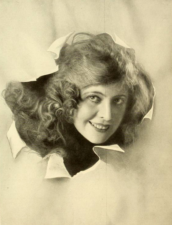 Photograph of Myrtle Stedman, The Photo-Play Journal, January 1917